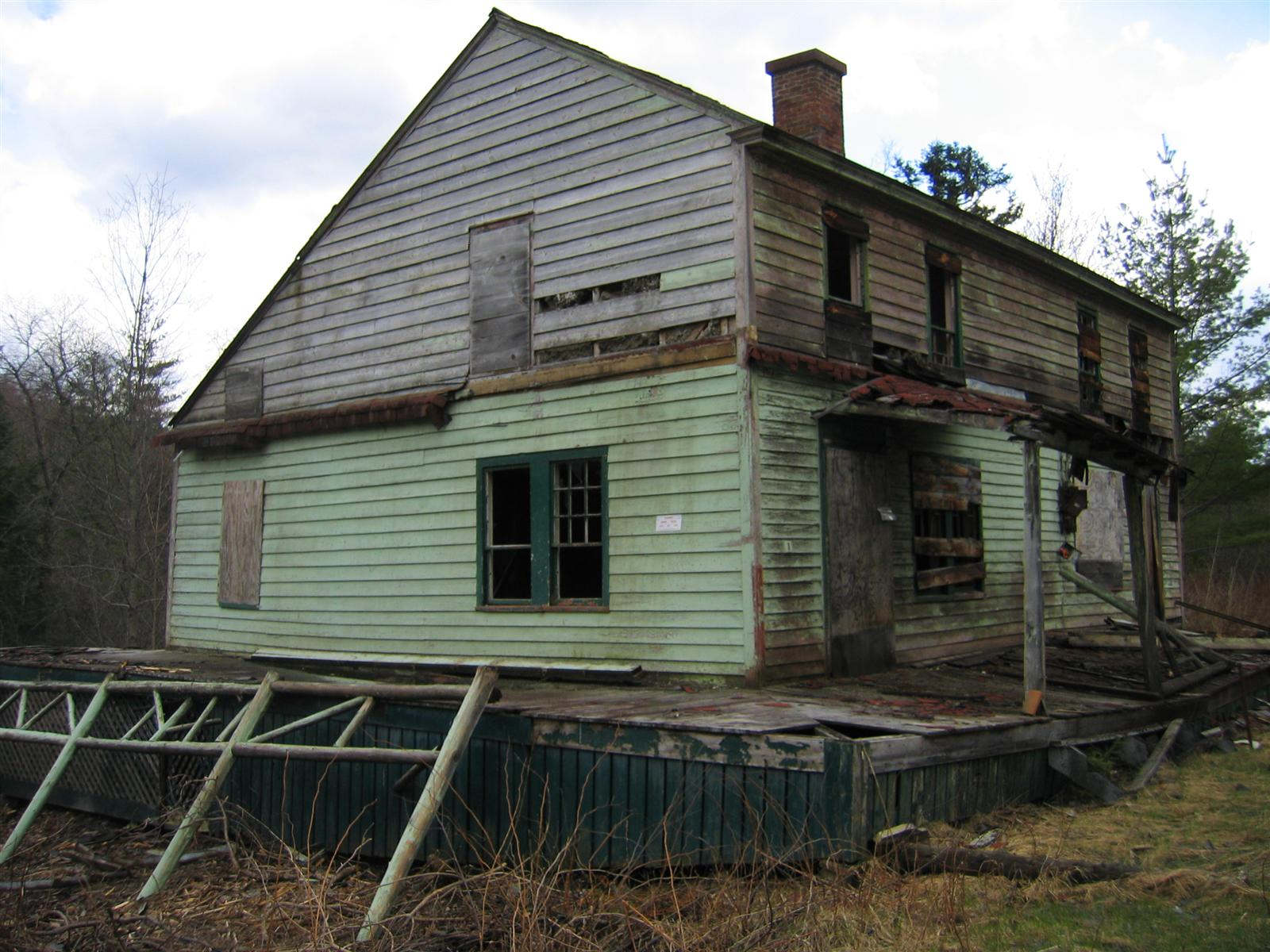 The house at the trailhead of Mt. Marcy, where Theodore Roosevelt was staying when he received word that William McKinley had been shot. Today the house is disused and in a state of serious disrepair.